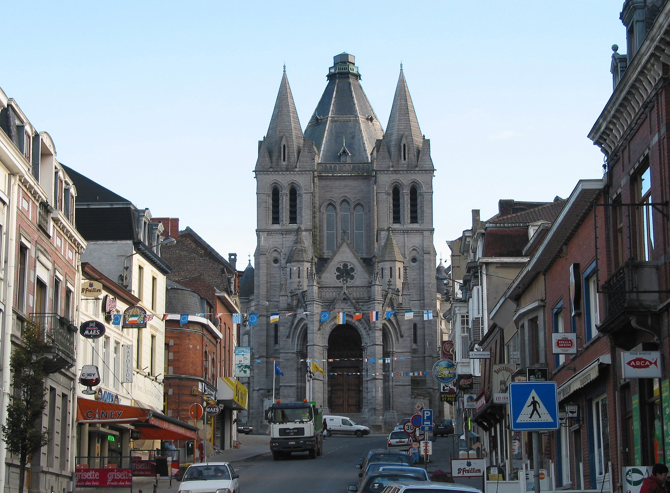 Bon-Secours (Belgium), the Our Lady of Bon-Secours Basilica (1885/1892 - Architect François Baeckelmans).